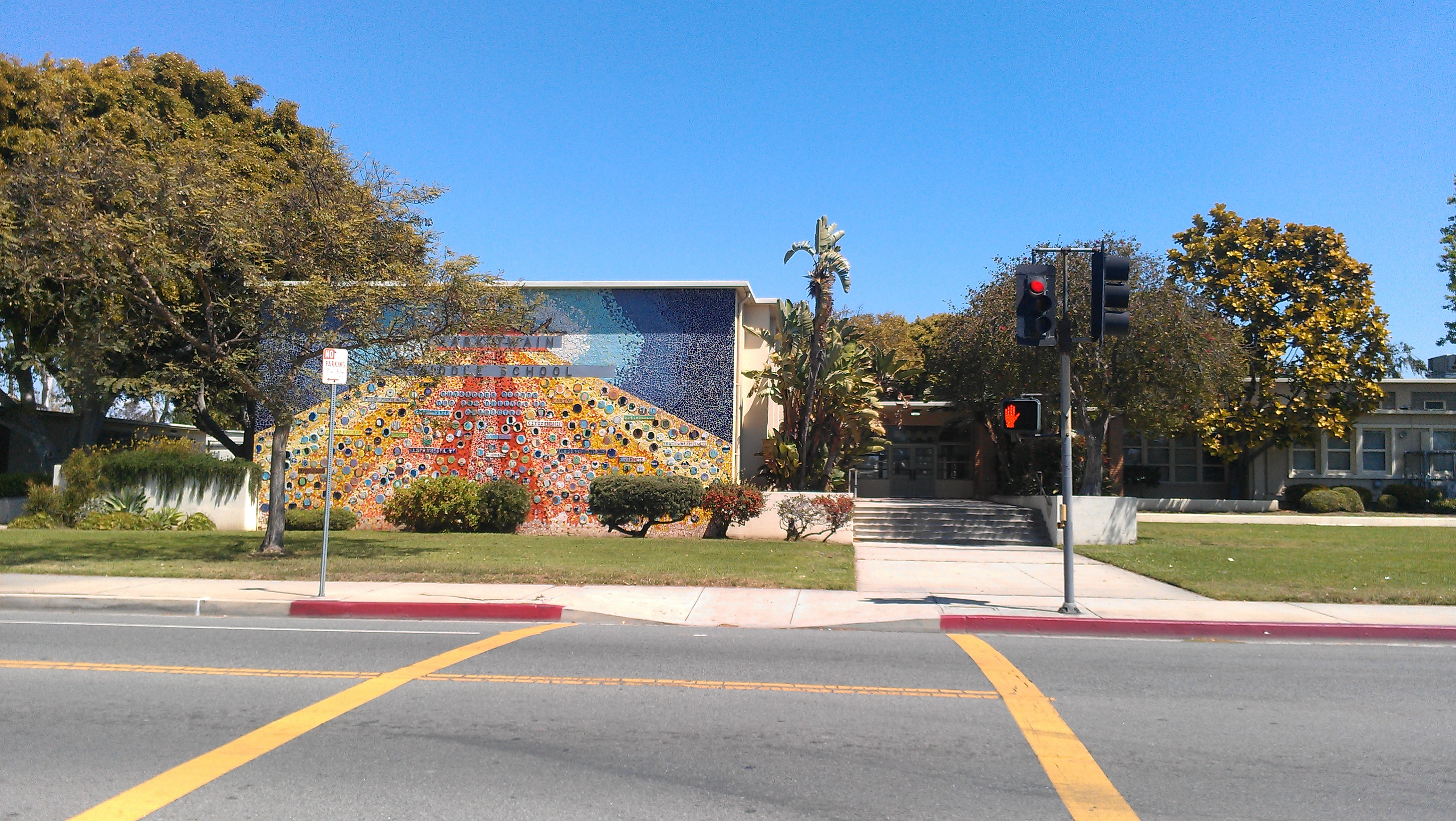 Mark Twain Middle School — on Walgrove Avenue, in Mar Vista, Los Angeles. With an outdoor mural.